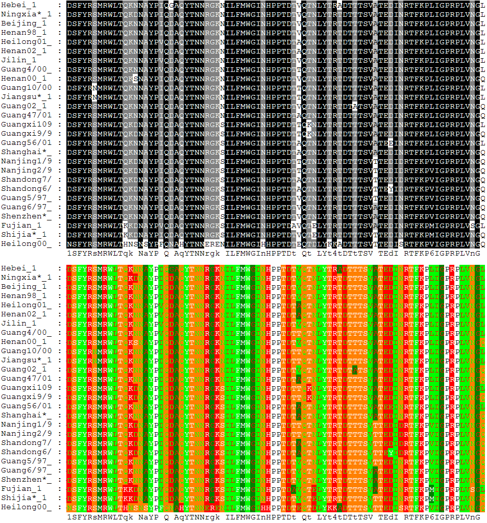 Sequence alignment of 27 H9N2 avian influenza hemagglutinin protein sequences. The top section is colored by residue conservation and the bottom by residue chemical properties. Alignment produced with ClustalW.